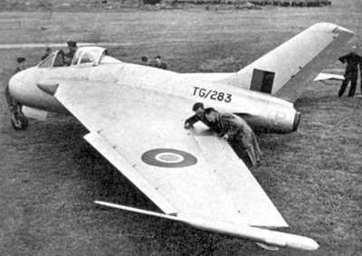 The first DH. 108 Swallow, TG283, (shown on aircraft as TG/283) at Hatfield on 30 May 1946. The torpedo-shaped objects on the wing tips are containers for anti-spin parachutes.